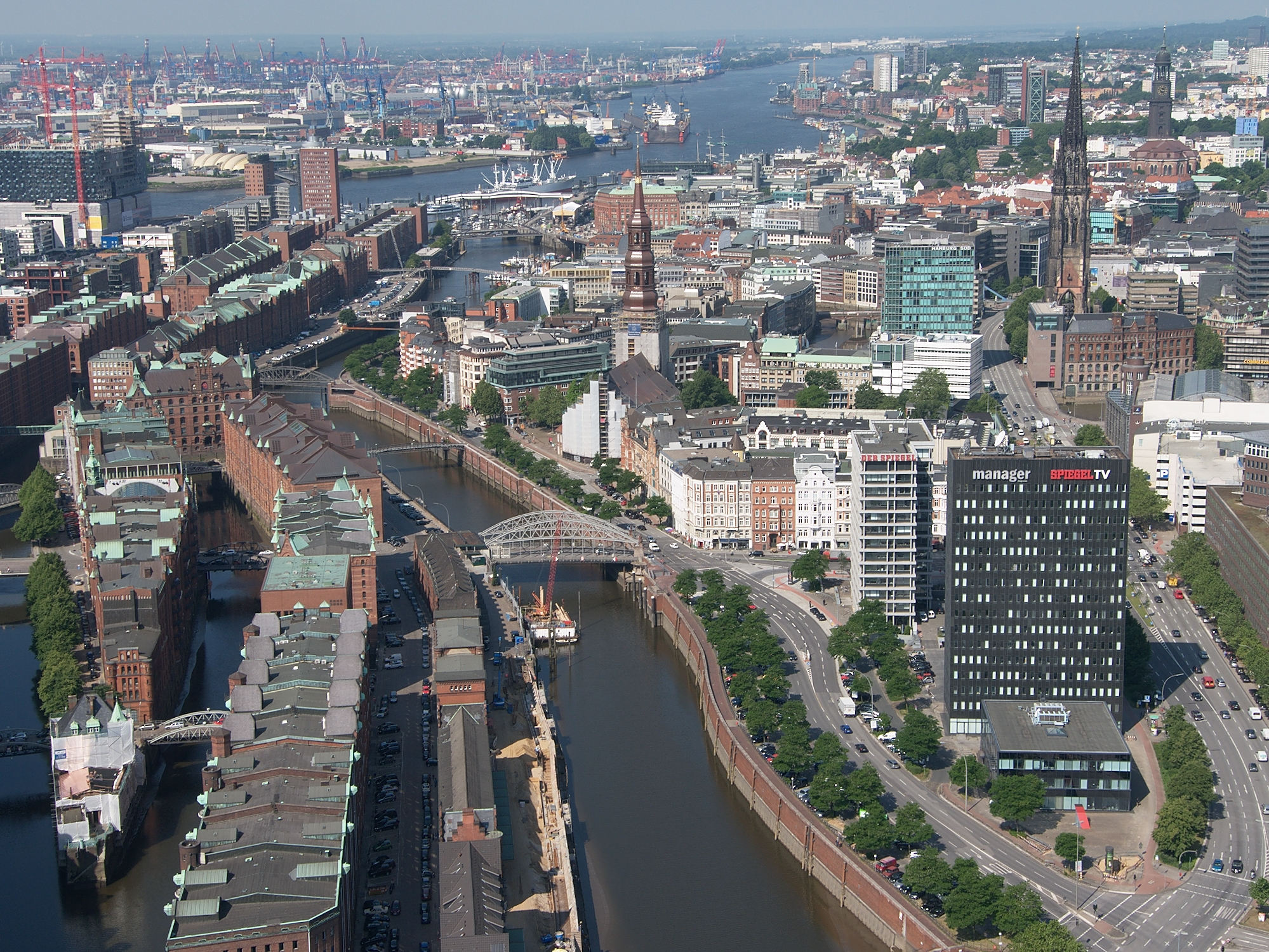 View from a Height of 150 m on Hamburg - Speicherstadt mit Zollkanal und Elbe